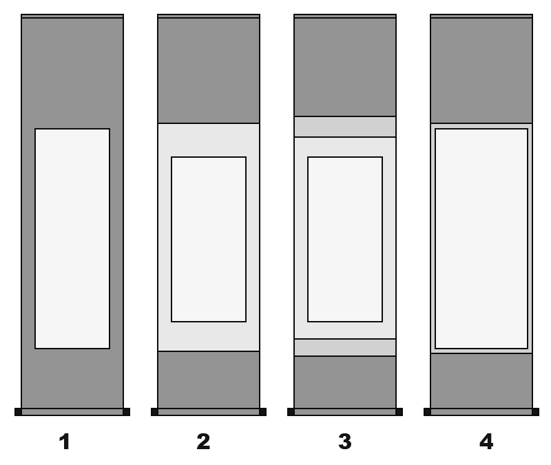 Different styles of hanging scrolls (with its most-basic features): Yisebiao (一色裱, one color mount) Ersebiao (二色裱, two color mount) Sansebiao (三色裱, three color mount) Xuanhezhuang (宣和裝, Xuanhe style), also known as Songshibiao (宋式裱, Song dynasty mount) Based on the articles: Lee, Valerie (2003). "The treatment of Chinese ancestor portraits: An introduction to Chinese painting conservation techniques". Journal of the American Institute for Conservation 42 (3): 463–477. Retrieved on 16 August 2011. 宣和装. National Palace Museum. Retrieved on 16 August 2011.